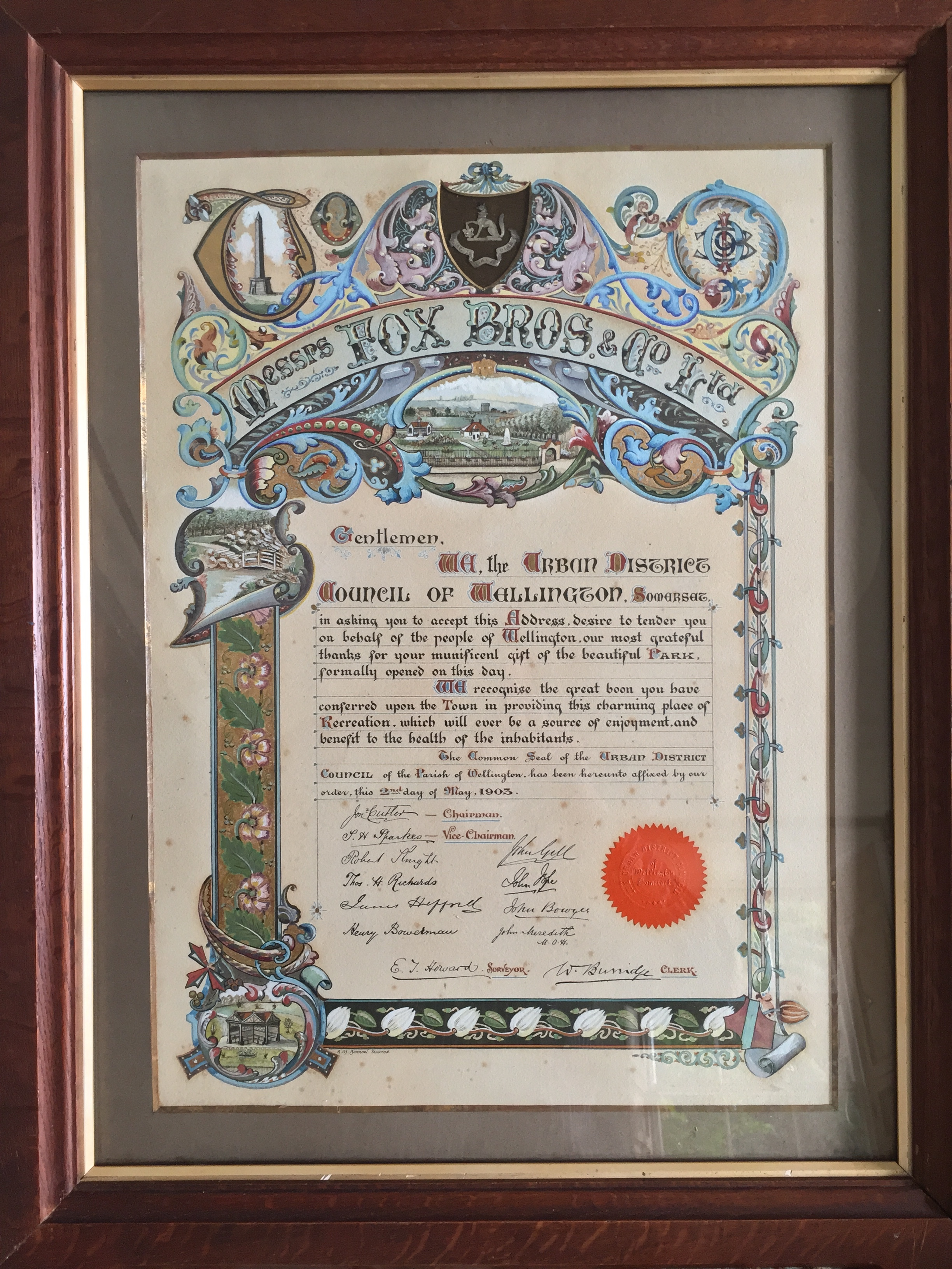 Thank You Gift From Wellington Council to Messers Fox Brothers & Co Ltd for the gift of Wellington Park; 2nd May 1903.